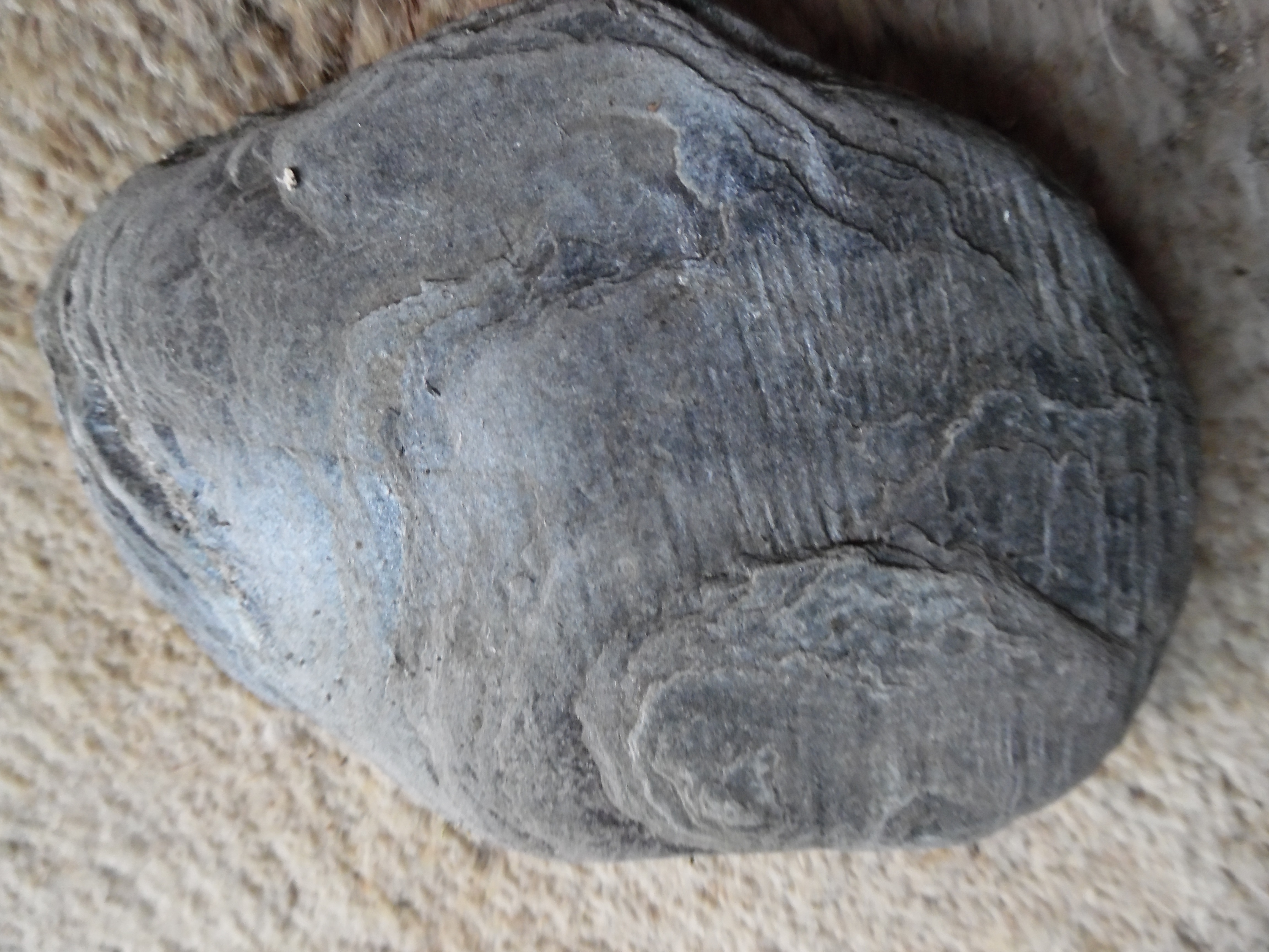 Micaschist from Saint-André-de-Valborgne, Cevennes, France.